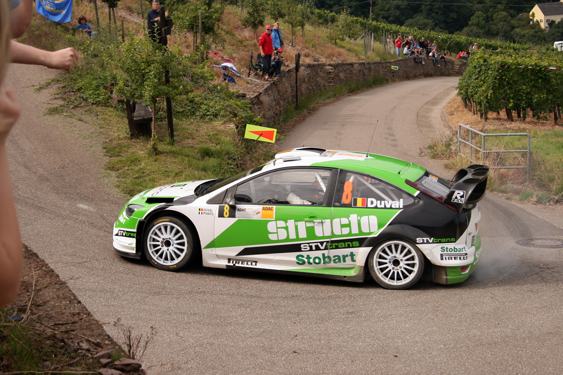 François Duval at the OMV Germany WRC Rally with his Ford Focus WRC.